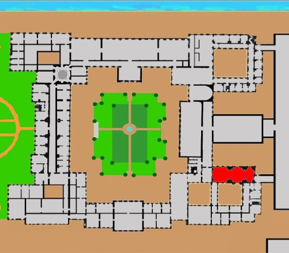 Location plan of the Grand Church of the Winter Palace, drawn by uploader